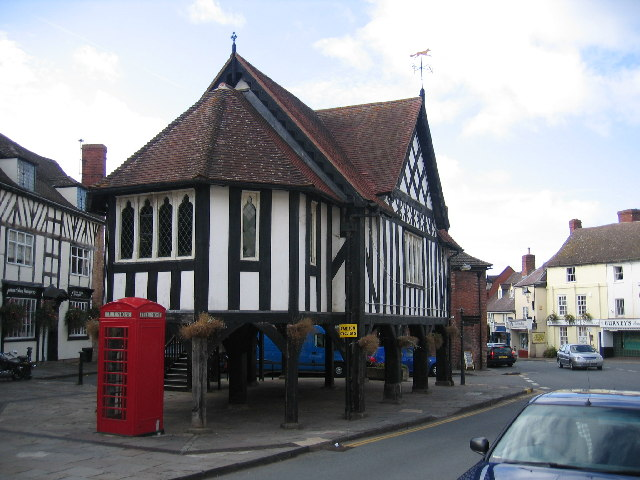 Market Hall, Newent. A frequently photographed local landmark in the centre of the town.